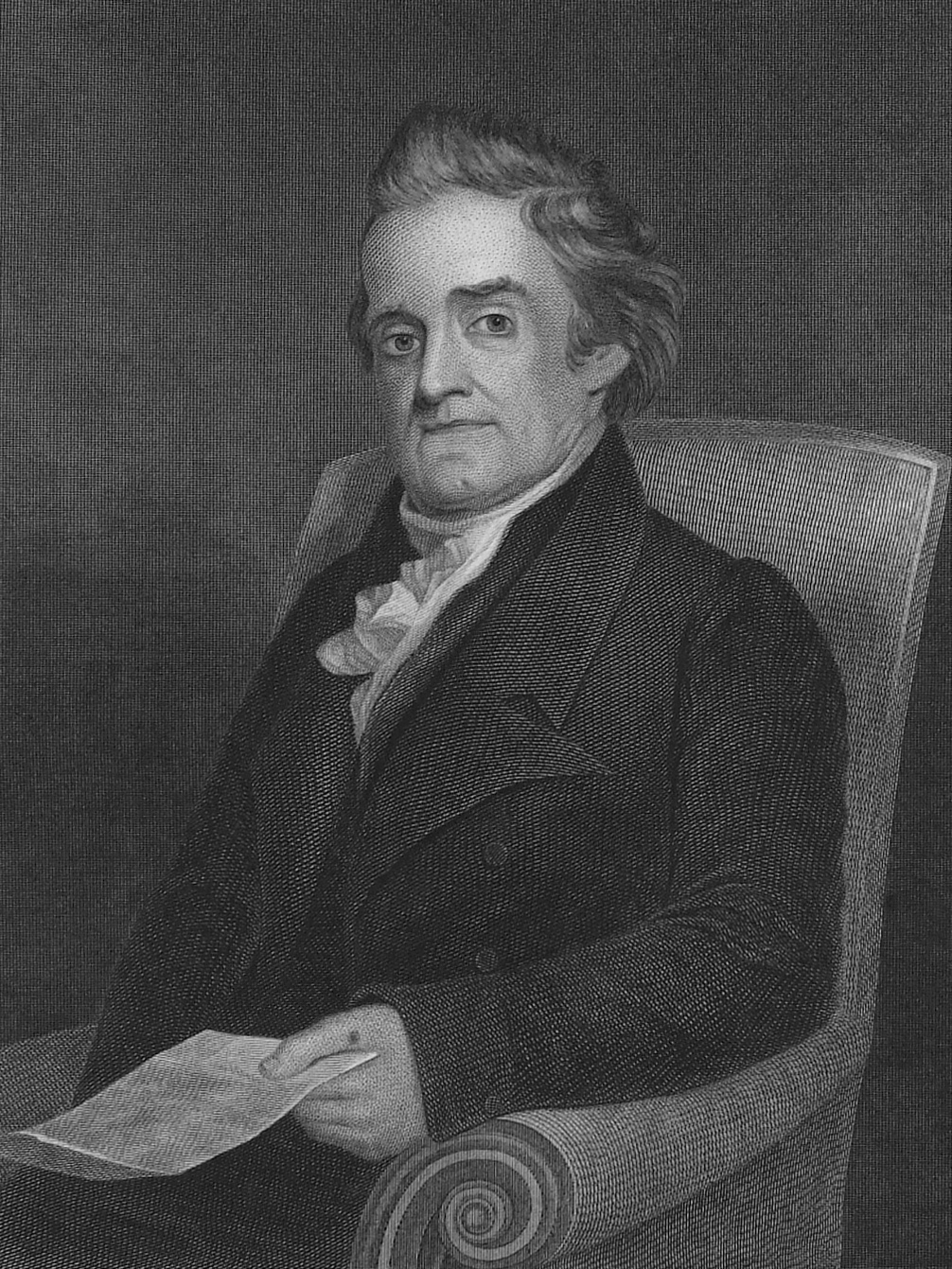 Engraving of Noah Webster, from the frontispiece of Webster's American Dictionary of the English Language, Revised and Enlarged